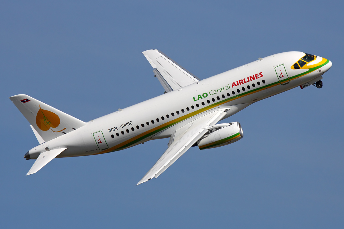 Lao Central Airlines Sukhoi Superjet 100-95 at Zhukovsky